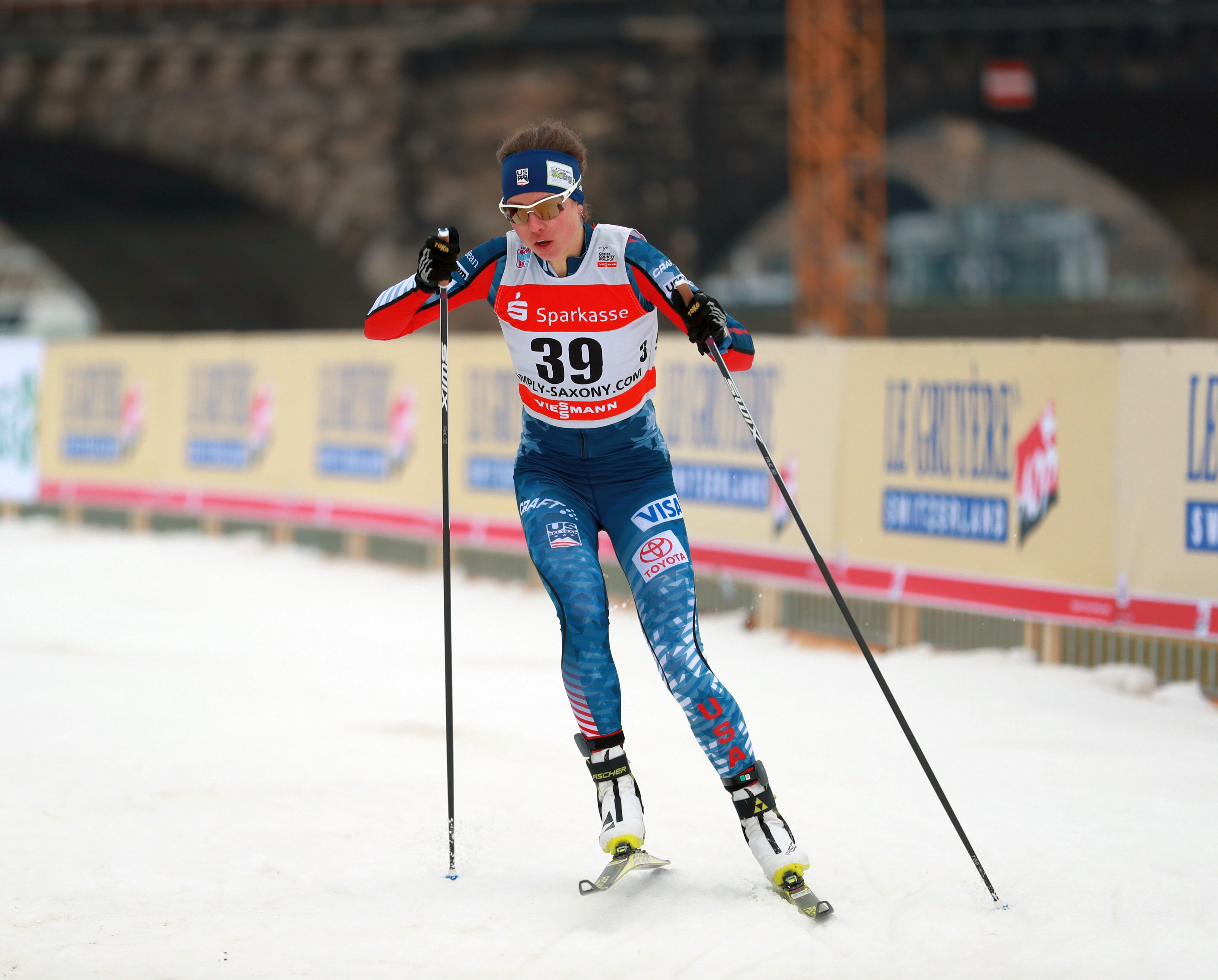 Womens Prolog at the FIS Cross-Country World Cup Dresden 2018: Caitlin Patterson